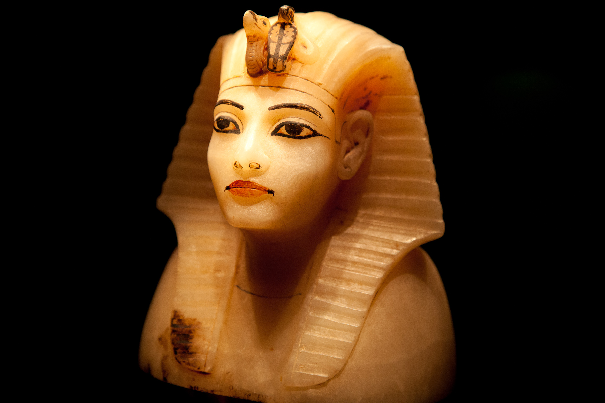 This is a lid for a canopic jar container in the shape of Tutankhamun's head. This 14th century BCE object was found in this young pharaoh's intact KV62 tomb from the 18th Dynasty of Egypt's New Kingdom and today forms part of the permanent collection of the Cairo Museum of Egypt. From the King Tut Exhibit at Seattle's Pacific Science Center